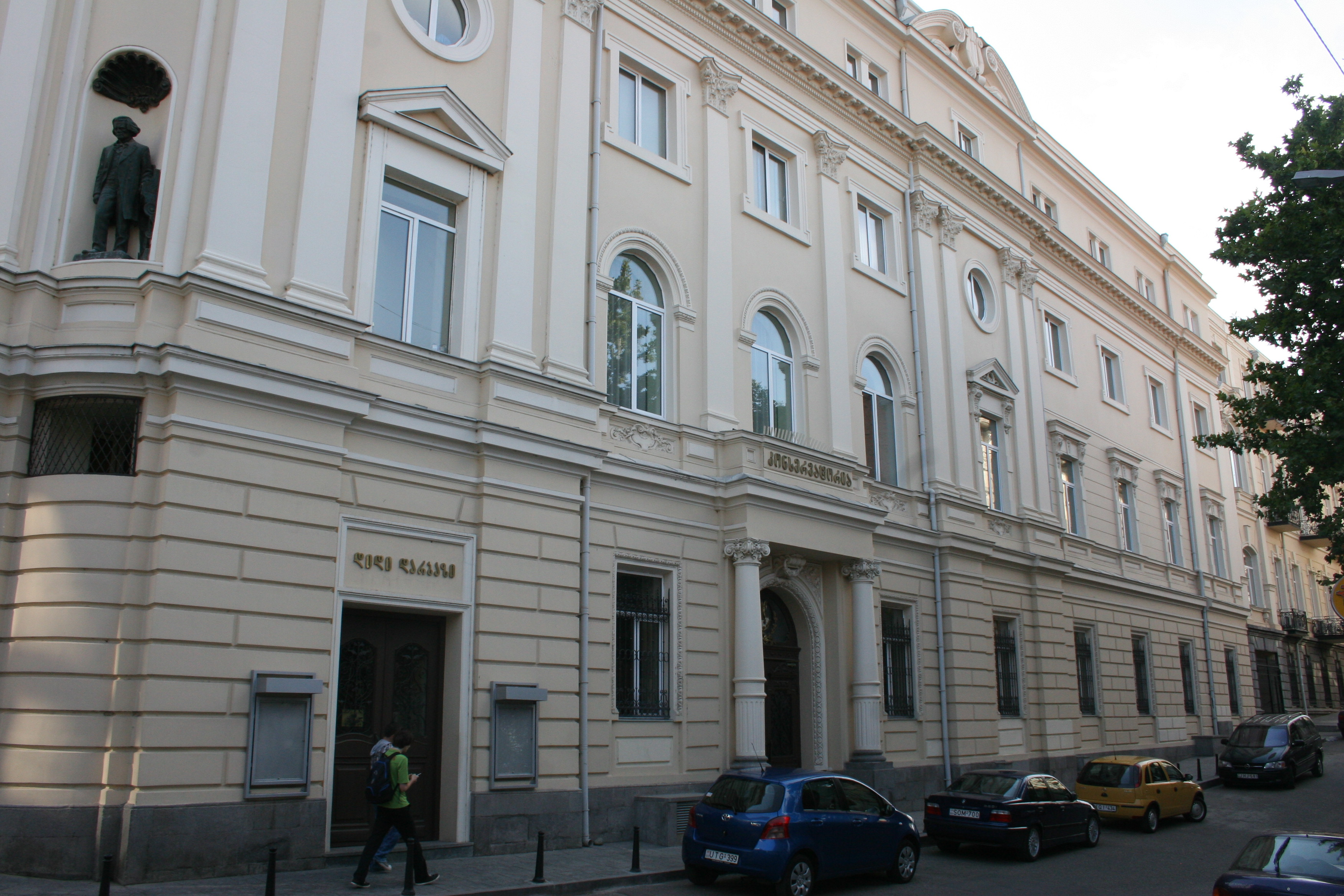 Tbilisi State Conservatoire building facade